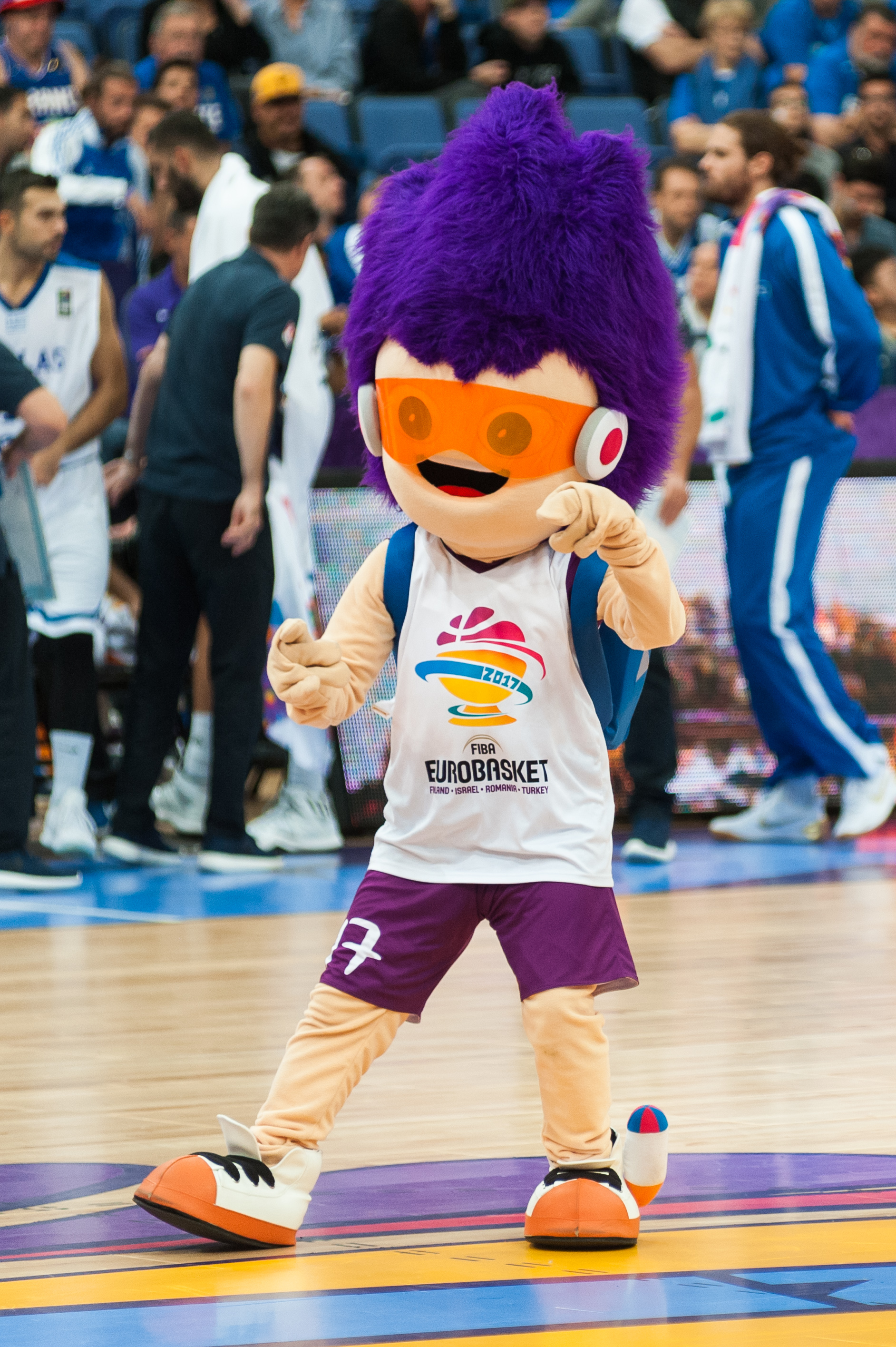 EuroBasket 2017's mascot Sam Dunk during a Group A game between Greece and France at Hartwall Arena in Helsinki, Finland.